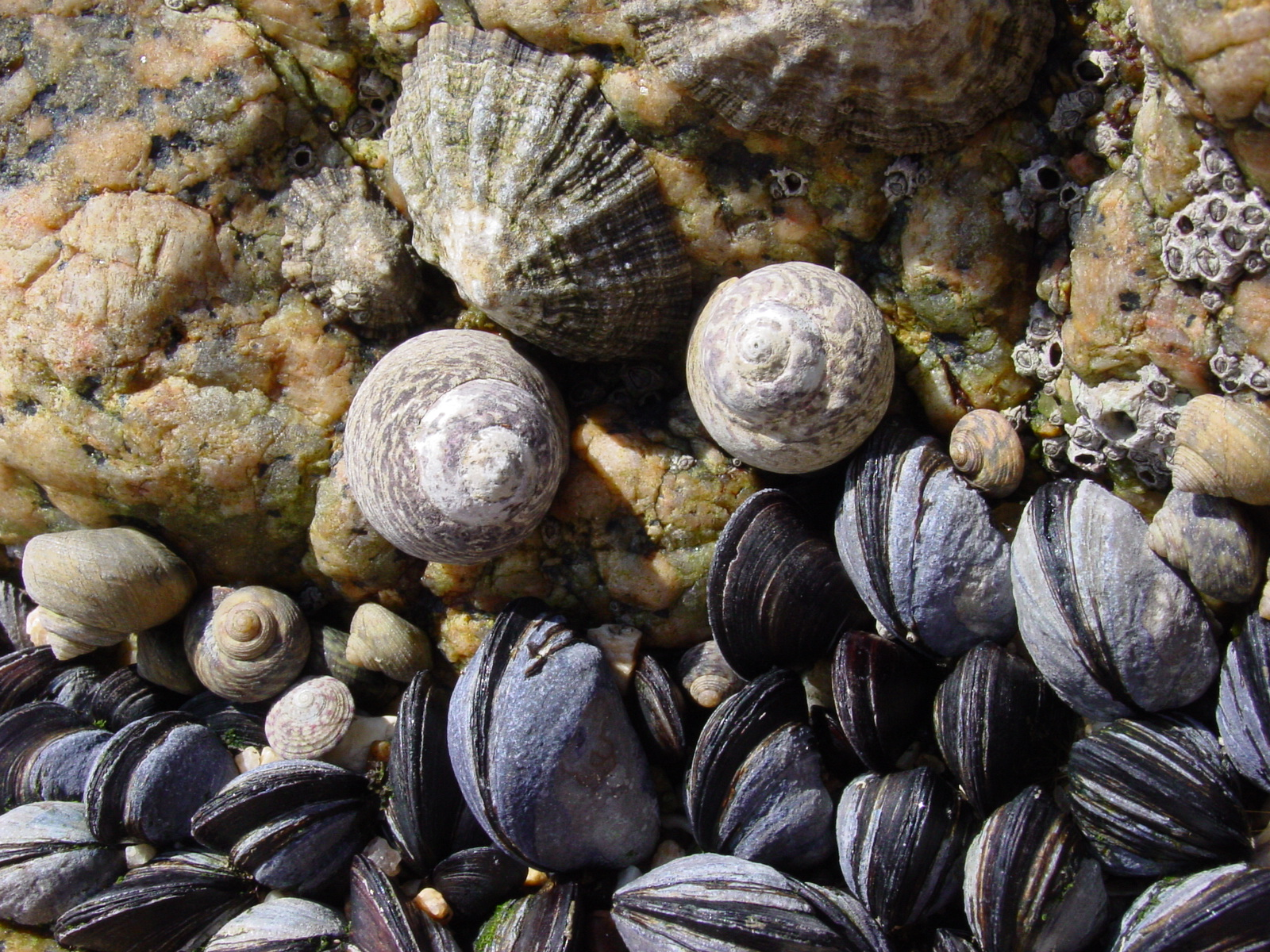 locality: Castiñeiras - Ribeira - Galicia - Spain. Patella rustica, synonym: Patella lusitanica Phorcus lineatus, (da Costa, 1778) synonym: Monodonta lineata, Osilinus lineatus Mytilus edulis Semibalanus balanoides, synonym: Balanus balanoides